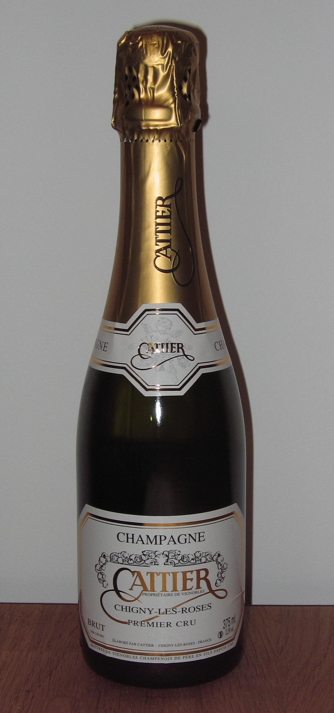 Half bottle of Champagne Cattier